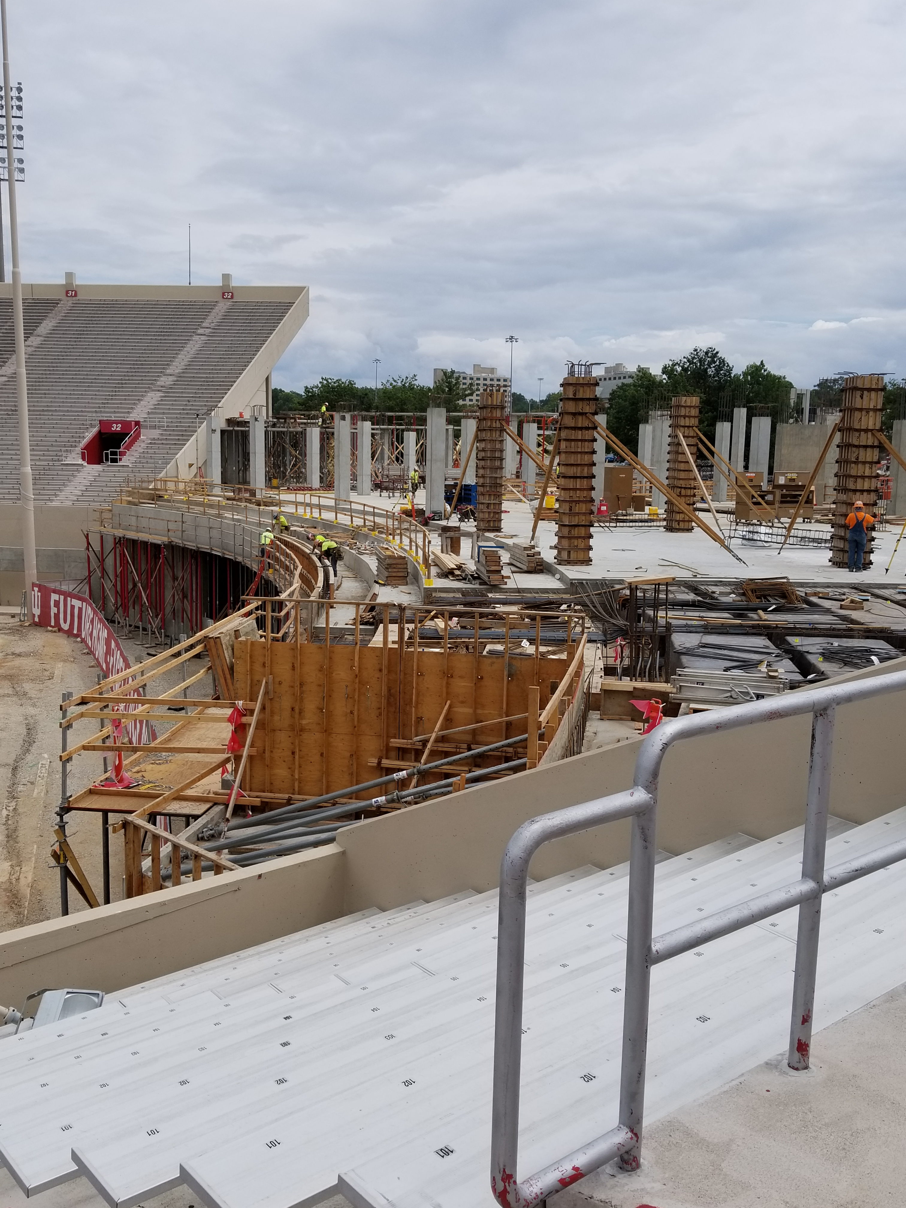 South Endzone - 081417